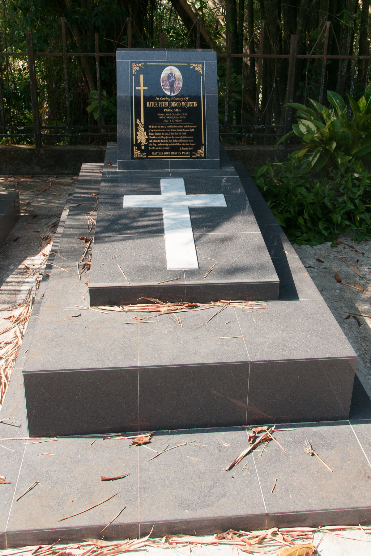 Tomb of Peter Mojuntin in St. Michael, Donggongon, Sabah